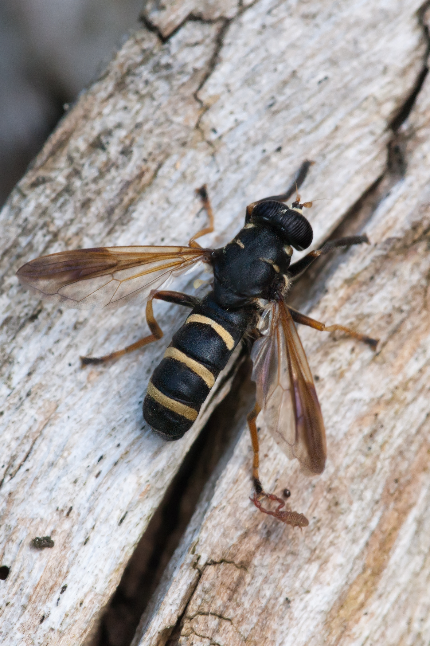 (Temnostoma bombylans)